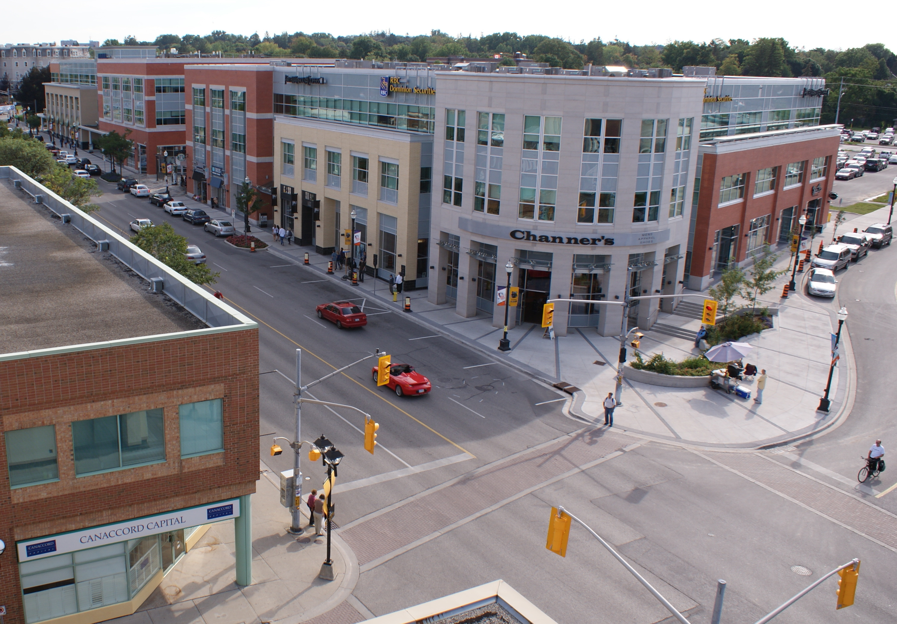 Shot of Uptown Waterloo as seen from the 6th level of the Uptown Parkade.